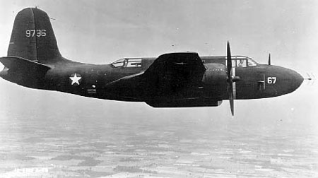 Douglas P-70 in flight. The first P-70 (S/N 39-736).